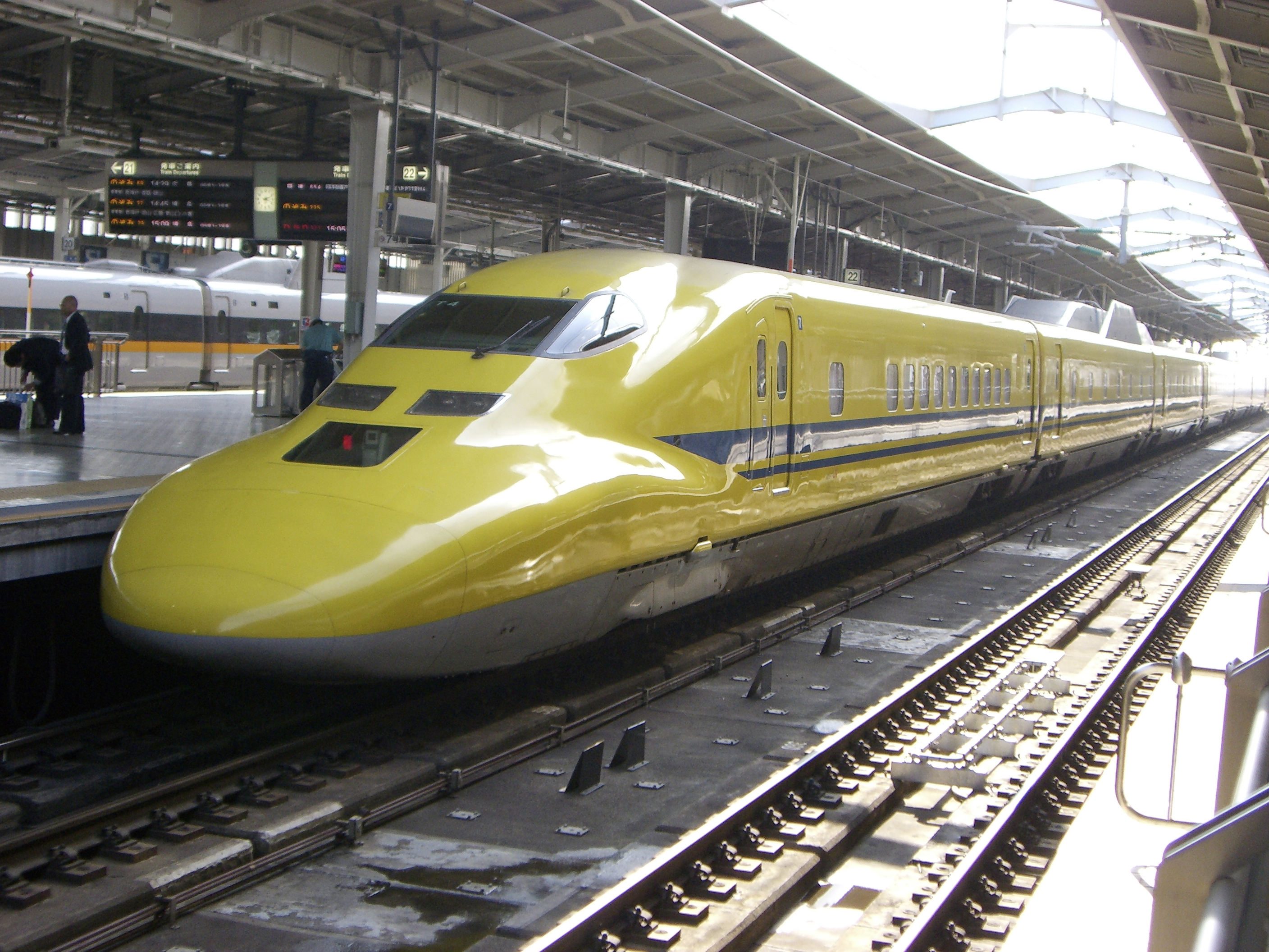 Shinkansen 923 series "Doctor Yellow" inspection train at Shin-Osaka Station